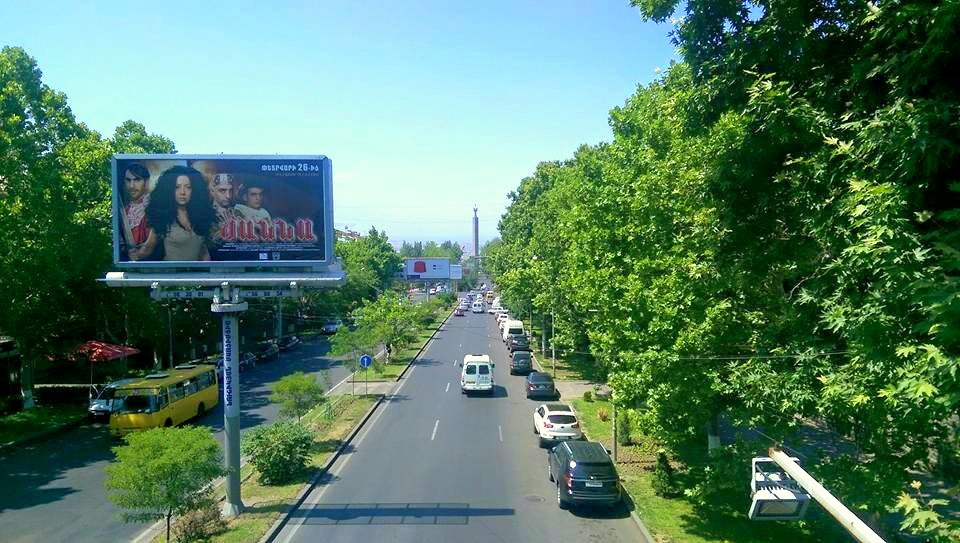 Liberty avenue, Yerevan, 2015